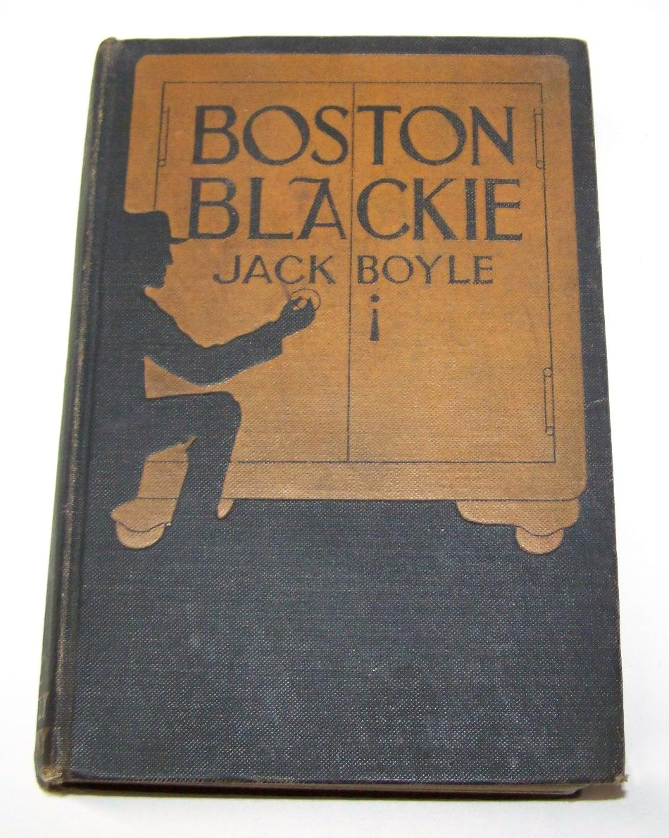 Front cover of the first edition of Boston Blackie, a collection of stories by Jack Boyle